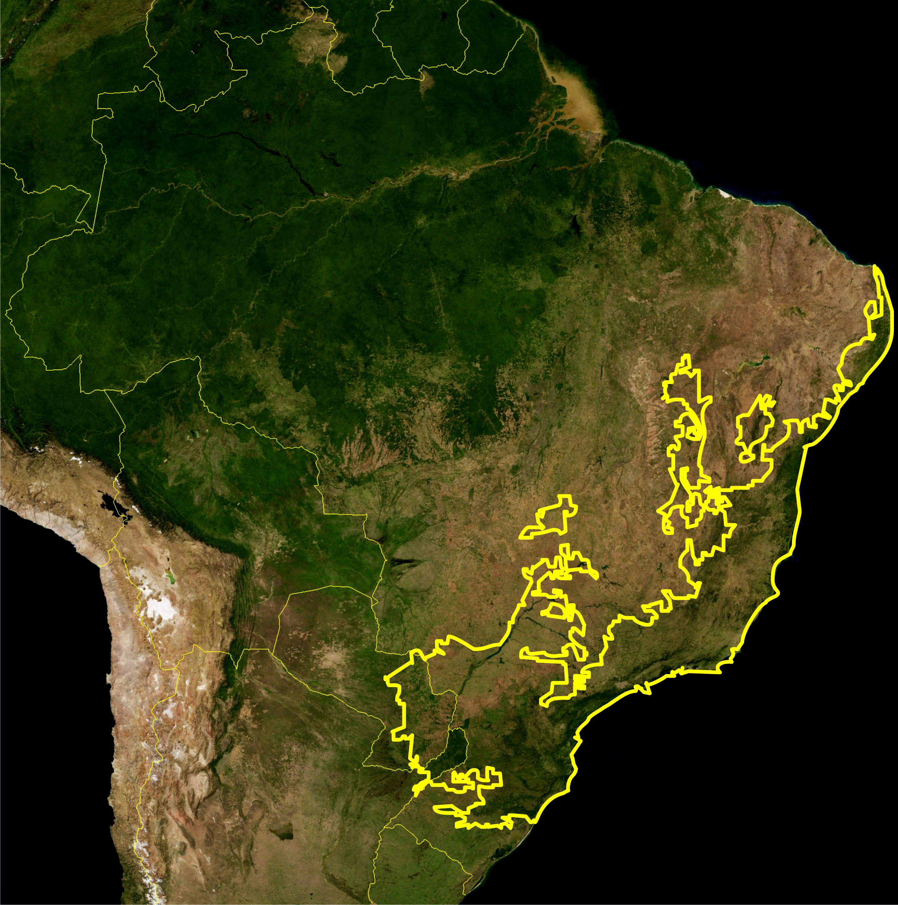 Location map of the Atlantic Forest biome — in Brazil, Argentina, and Uruguay. The yellow line encloses Atlantic Forest — as delineated by the WWF. "I, Miguelrangeljr, made it using NASA Blue Marble imagery and Corel Draw X4."